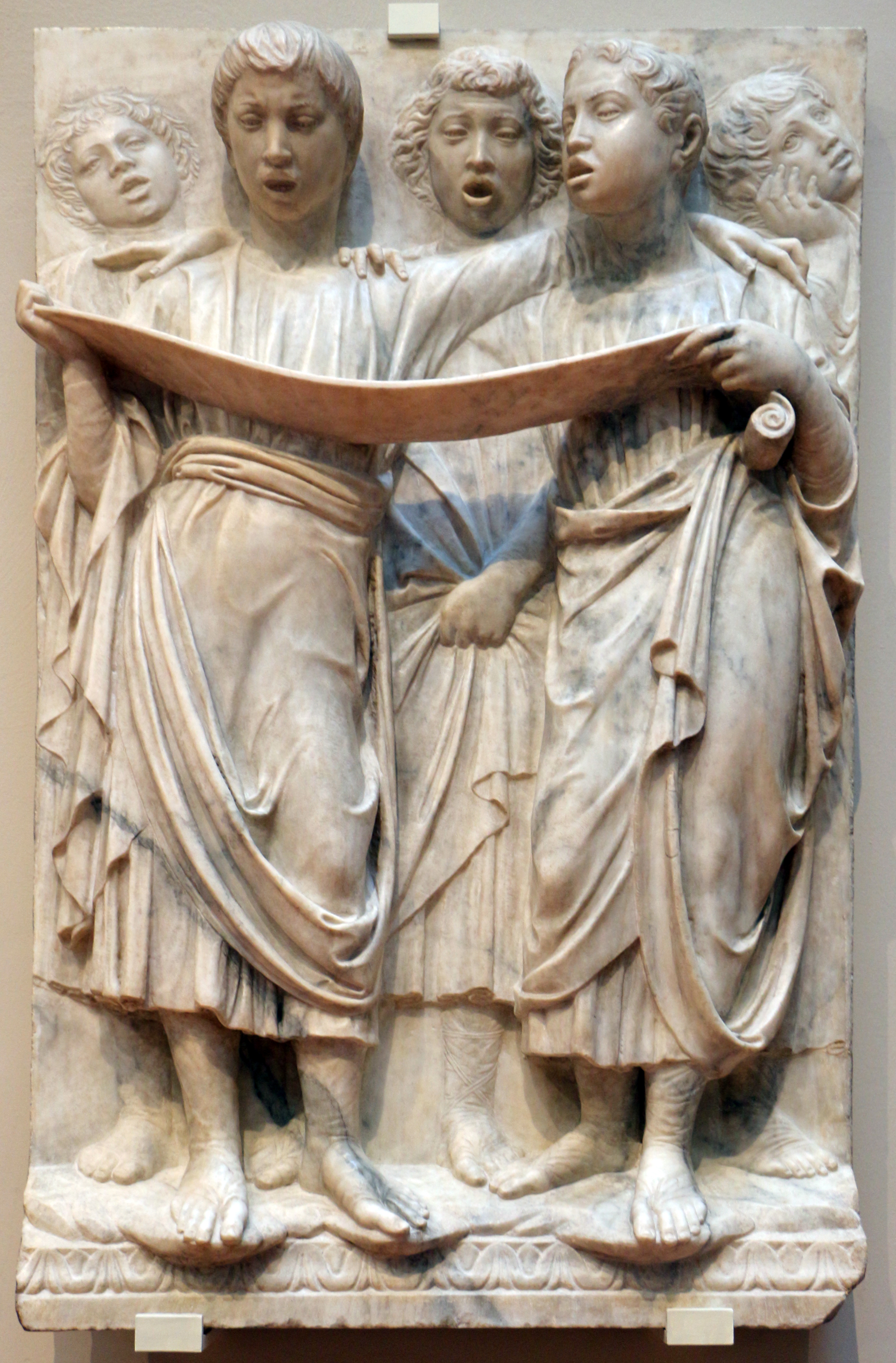 Cantoria by Luca della Robbia